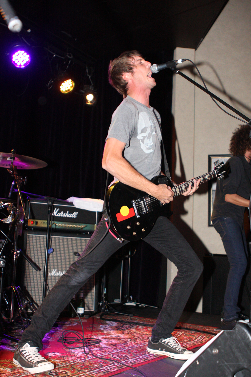 The Star Opens Marquee Nightclub; Entertainment Rather Than Casino Focus The Star tonight unveiled their latest weapon in the Australian casinos wars - all part of the battle for the entertainment dollar. The pitch reads... Internationally acclaimed nightclub operator Tao Group is set to bring a monumental change to Sydney's nightlife landscape with the opening of Marquee - The Star Sydney in late March 2012. Marquee - The Star Sydney will be located on the entire top tier of The Star's new Pirrama Road harbourside entrance, commanding expansive views of Sydney Harbour and the city skyline. With nearly 20,000 square feet of floor space, the venue is designed to house three distinct spaces within the one venue to cater for different tastes and moods. The Main Room will feature a 30-foot projection stage with an LED DJ booth and two dance floors. In contrast, a stylish Library style room will offer an intimate lounge experience, accentuated by a working fireplace. Venturing further into the venue, club-goers will come across the Boom Box, with a separate DJ, state-of-the-art sound system and outdoor patio. There is also a chill-out area with unparalleled views of the Sydney skyline and a unisex "bathroom lounge". Furnished with dynamic and unique interiors, the venue will have a retail store and separate VIP entrance for quick entry from street level. Perth based band Gyroscope played: Pain 1981 Beware Wolf Still Taste Blood Dream BS Scream Doctor Doctor Live Without You Sotpik Midnight Express Baby Weapon Enemy Friend These Days Safe Forever Take This For Granted Fast Girl Snakeskin We would like to say a big thank you to everyone who made today a success, and we'll see you back at The Star again soon. Websites Marquee Sydney The Star Marquee (The Star) Echo Entertainment Gyroscope Eva Rinaldi Photography Flickr Eva Rinaldi Photography Music News Australia